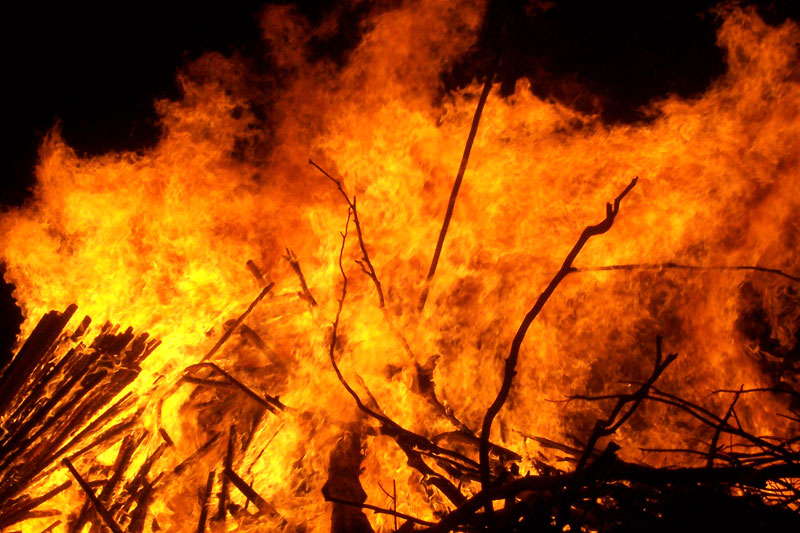 Large Bonfire